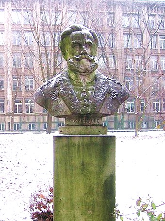 The Bust of Józef Hauke-Bosak in Jordans Park in Cracow